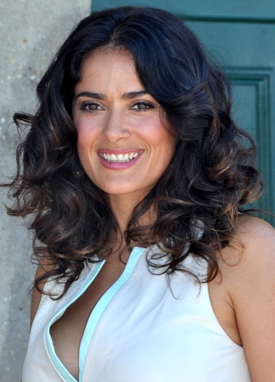 Actress Salma Hayek at the Deauville Film Festival 2012.